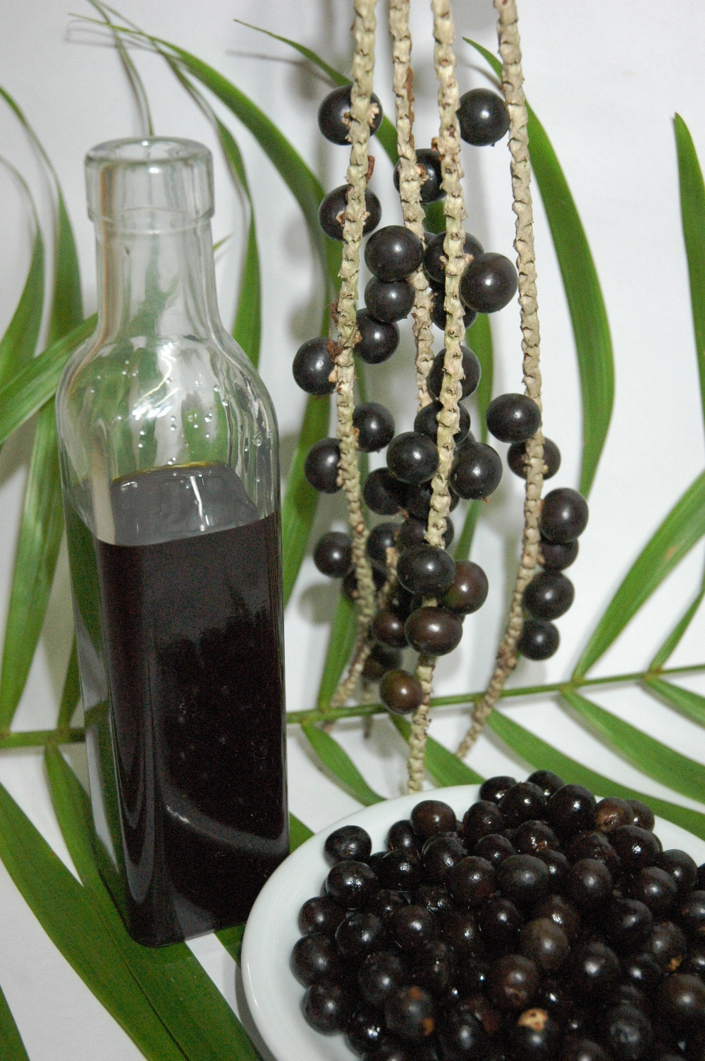 Açai oil